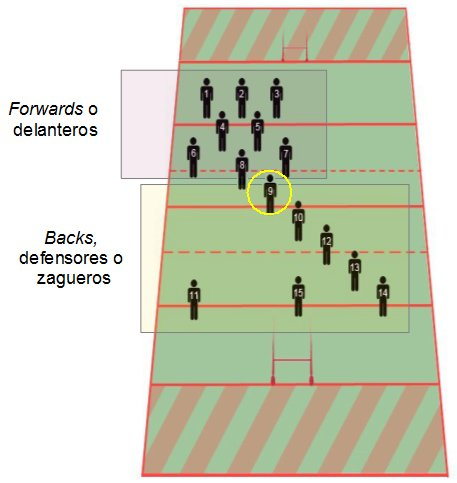 Rugby posiciones. Medio Scrum